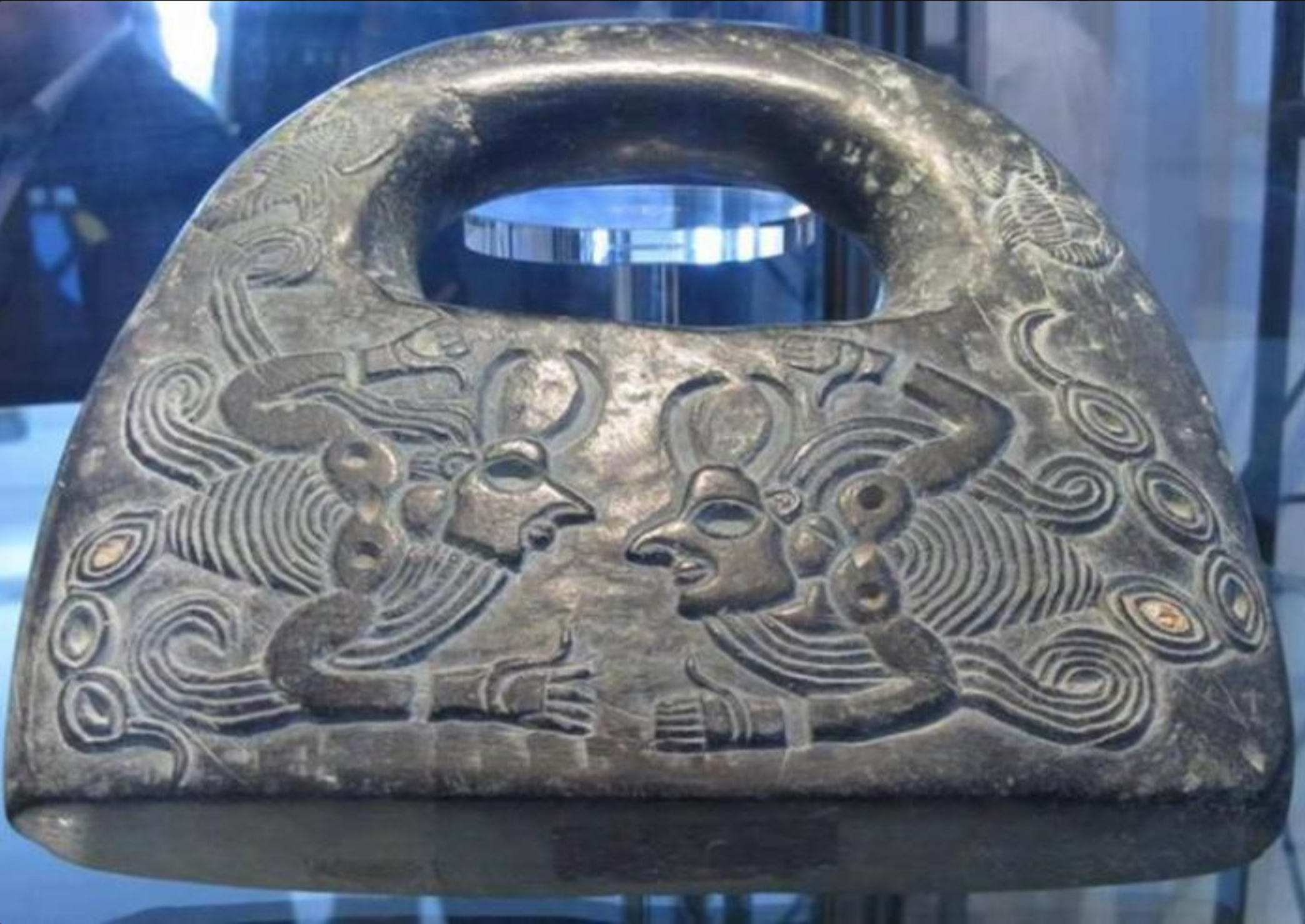 Jiroft culture artifact